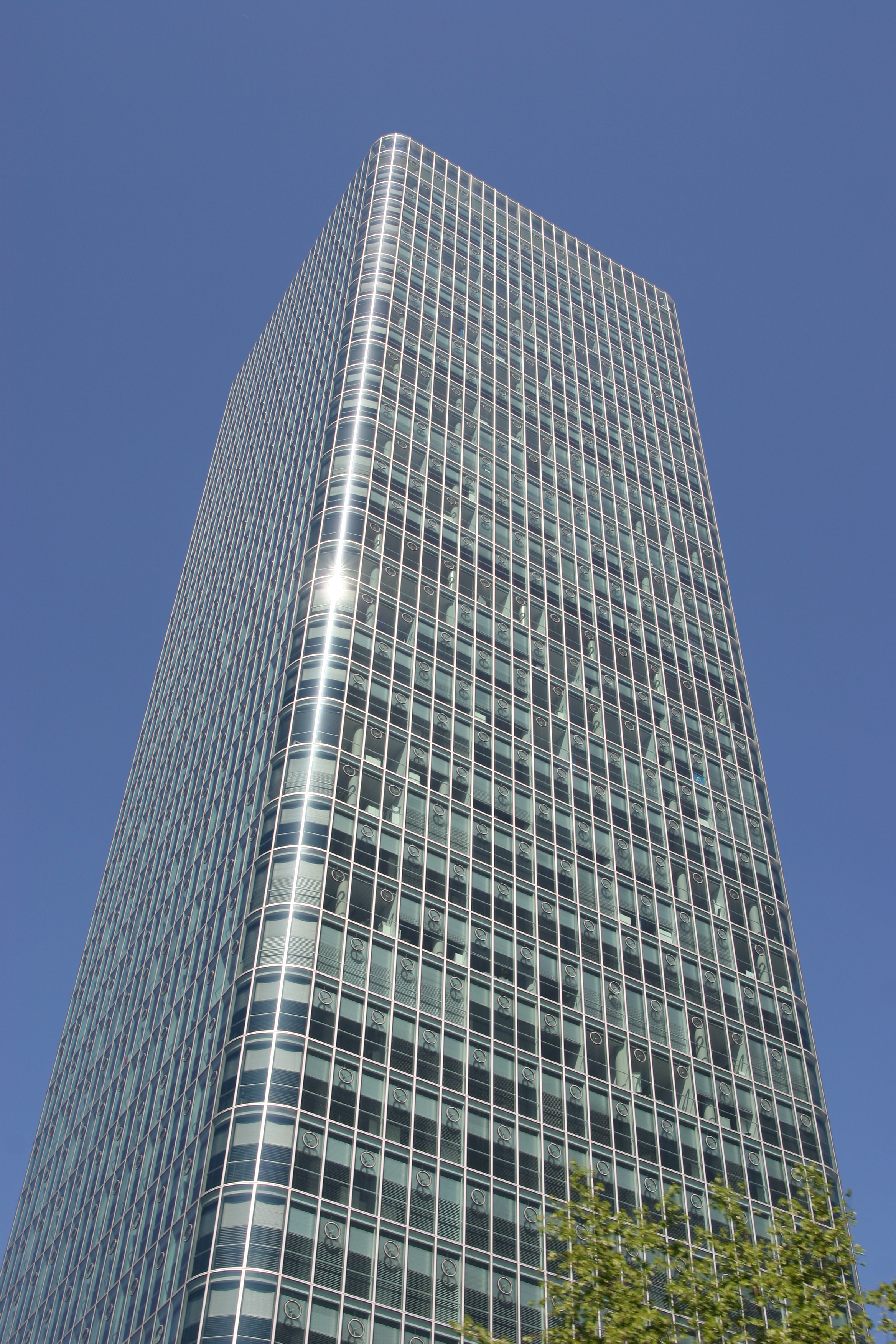 Hochhaus Uptown München